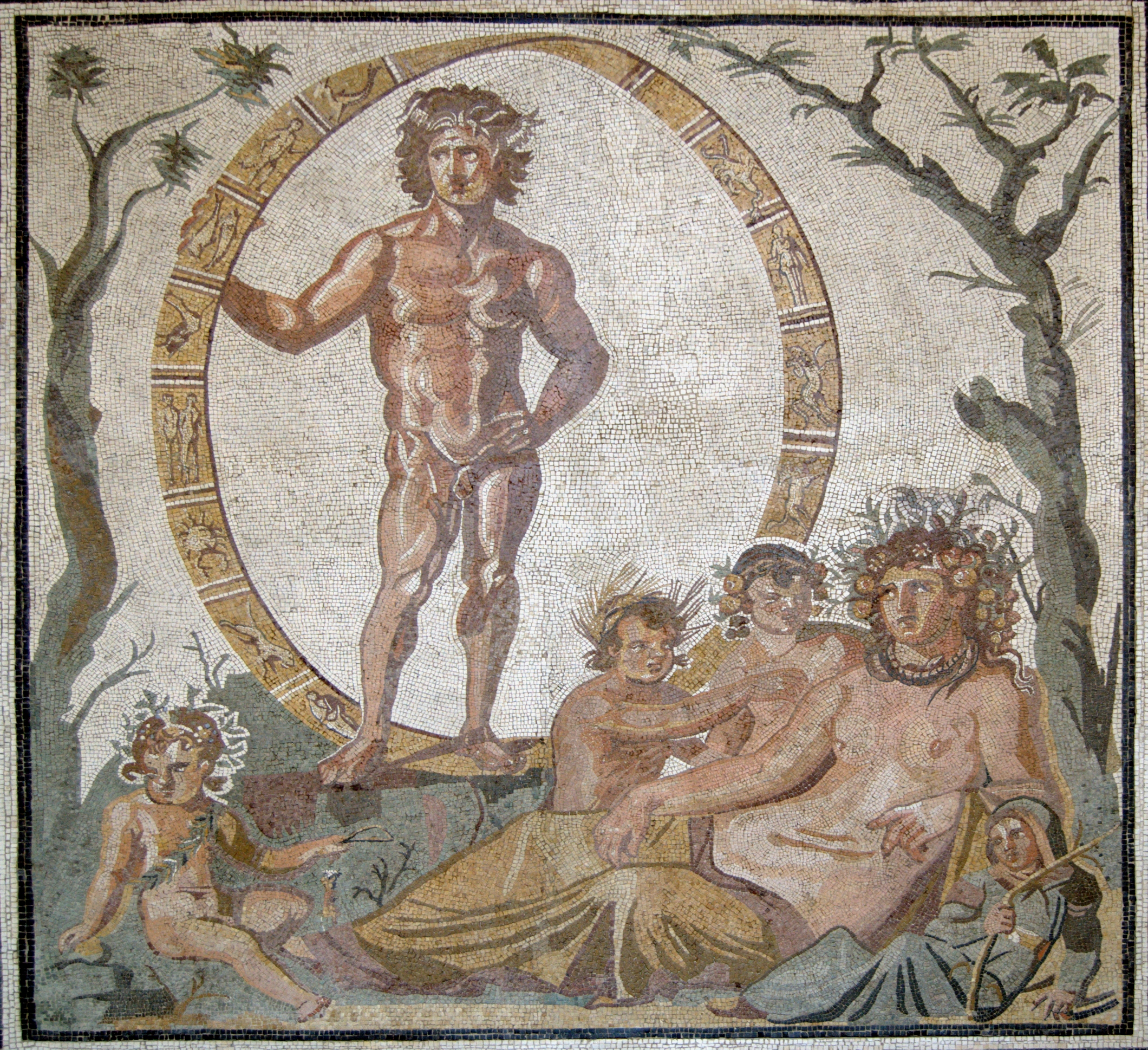 Central part of a large floor mosaic, from a Roman villa in Sentinum (now known as Sassoferrato, in Marche, Italy), ca. 200–250 C.E. Aion, the god of eternity, is standing inside a celestial sphere decorated with zodiac signs, in between a green tree and a bare tree (summer and winter, respectively). Sitting in front of him is the mother-earth goddess, Tellus (the Roman counterpart of Gaia) with her four children, who possibly represent the four seasons.